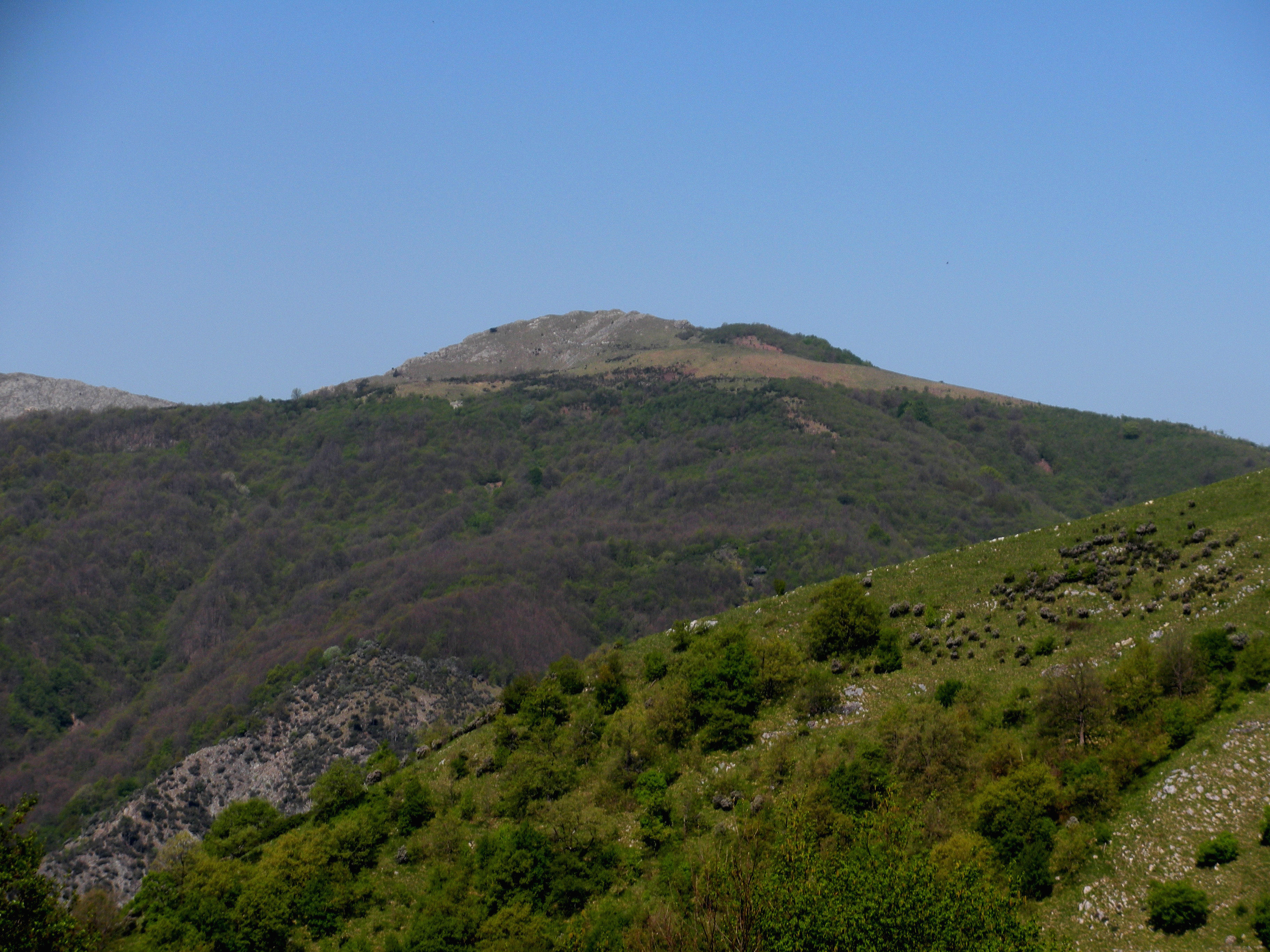 Ceranesi, province of Genoa, Italy, Mount Proratado